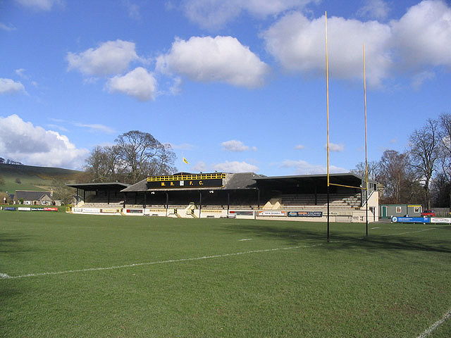 The Greenyards The home of Melrose Rugby Football Club. It was here that the game of Rugby Sevens was invented in 1883 by Ned Haig, a Jedburgh-born butcher who played as a three-quarter for Melrose. The Press Box which dates from the 1930s, is in the roof of the stand with yellow letters MRFC against a black background, the team colours. The area called The Greenyards was gifted to the town by Charles Ormiston, a former seed merchant from Melrose. In ancient times, this was a marsh, which the monks drained and used as a grazing ground and market for sheep. (Source: Melrose Town Trail by )